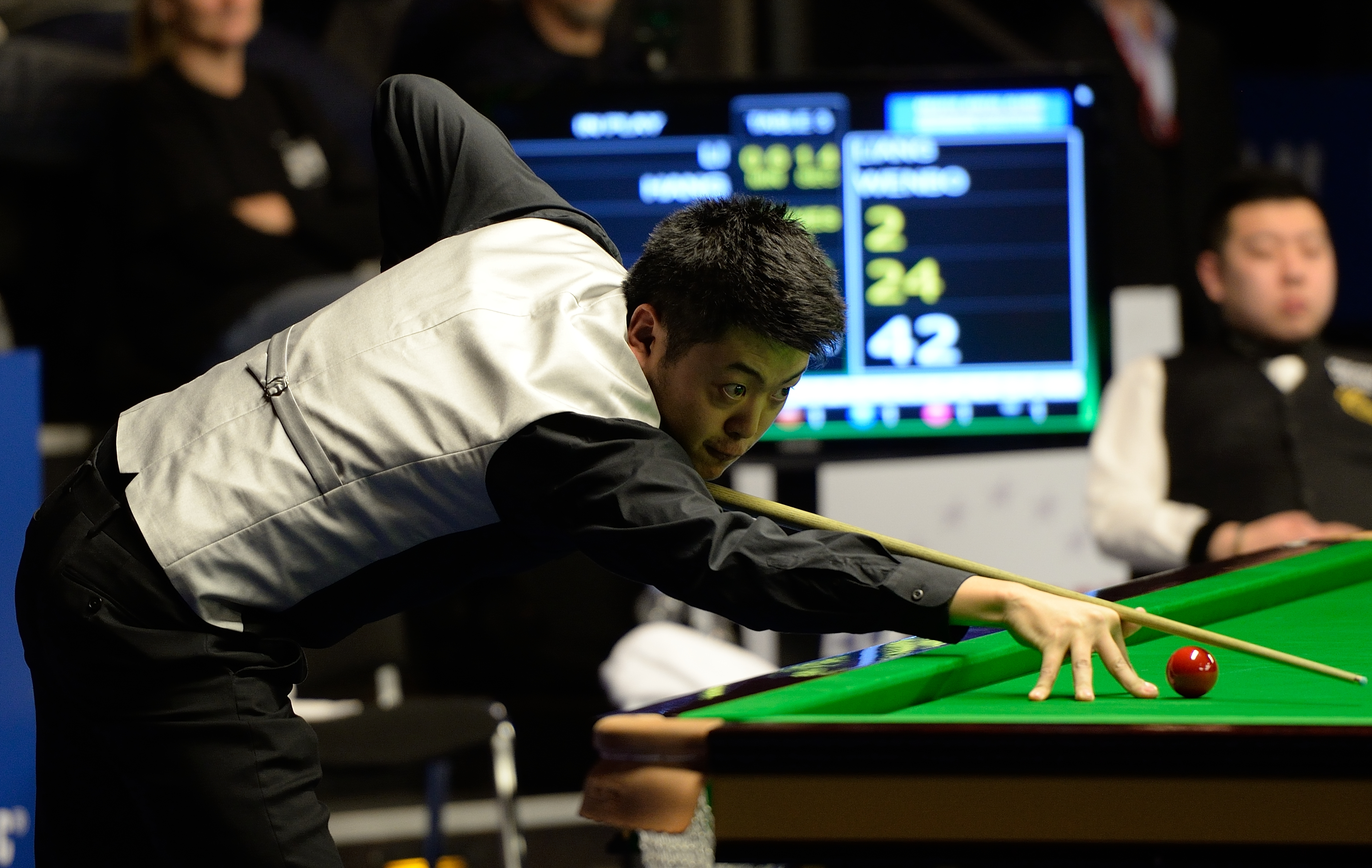 Picture taken in Berlin during the Snooker German Masters in 2015. Liang Wenbo.